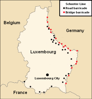 Map of Luxembourg's Schuster Line, before the invasion by Germany on 10 May 1940. Marked are the road and bridge barricades of the line.